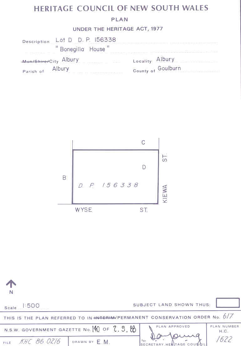 Bonegilla House: PCO Plan Number 617